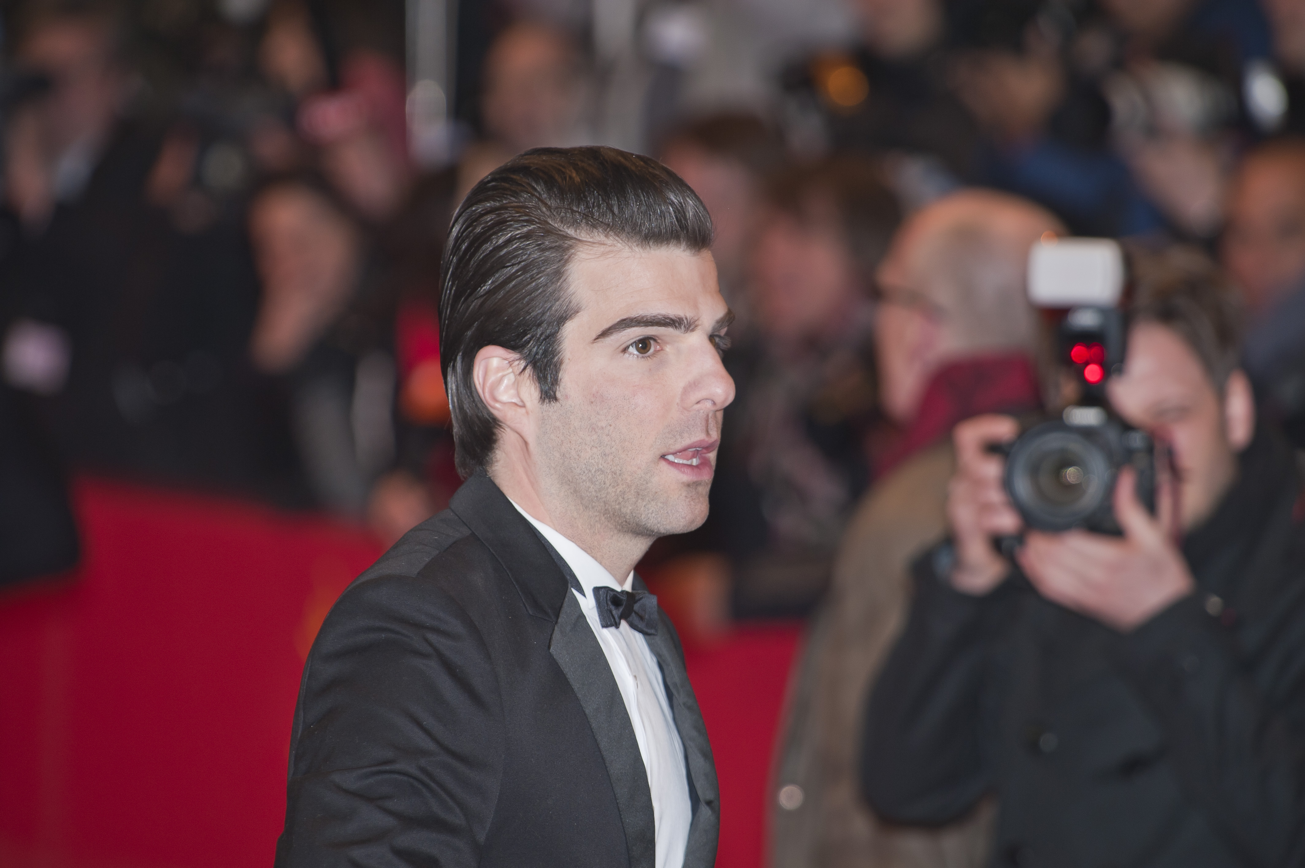 Zachary Quinto, US American actor, at the premiere of True Grit at the Berlinale 2011